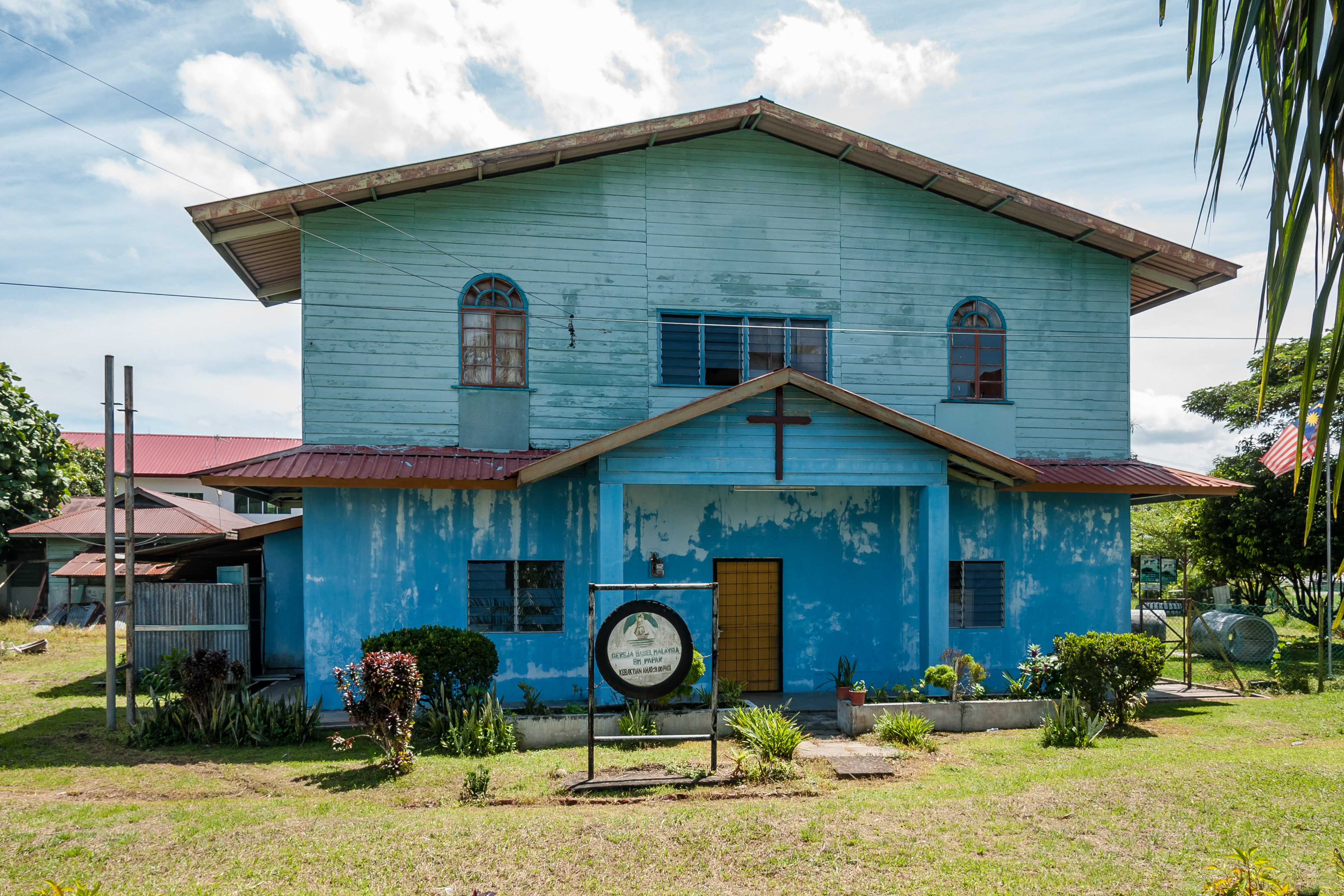 Papar, Sabah: House of Basel Christian Church of Malaysia